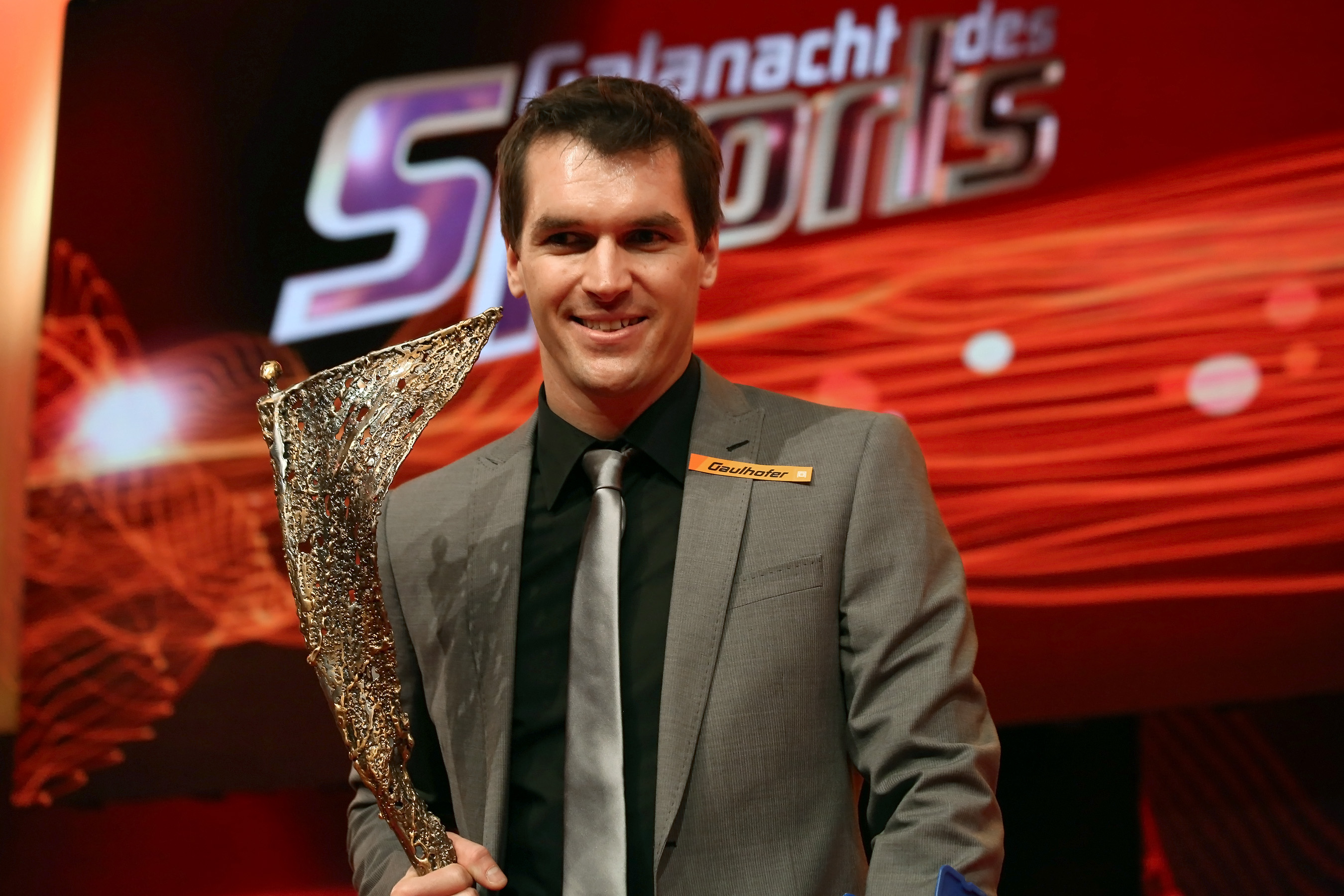 Matthias Lanzinger with the award as "Disabled Sportsman of the Year"; award show for the Austrian Sportspersonalities of the Year 2013 at Austria Center Vienna (Vienna, Austria).